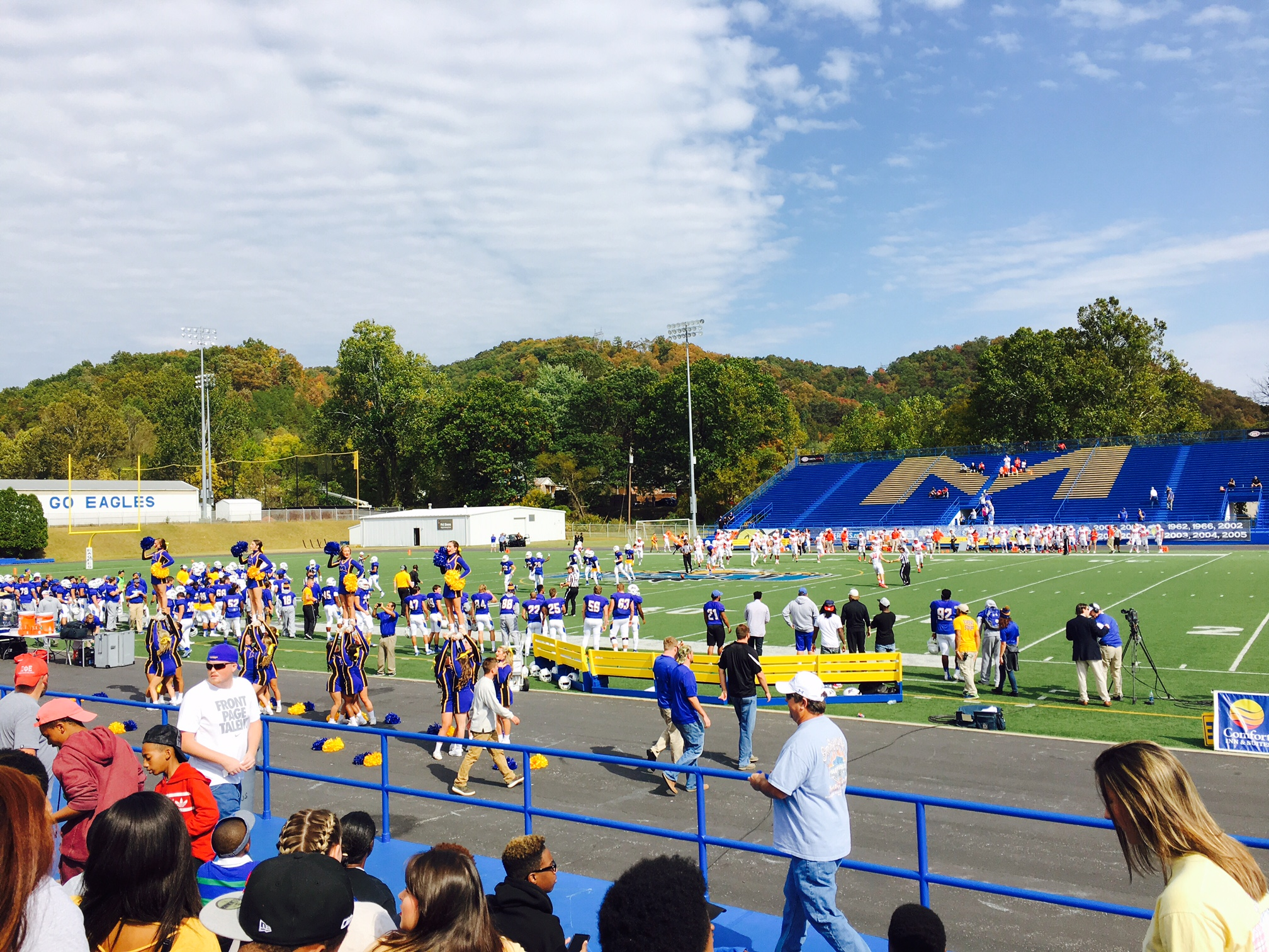 Jayne Stadium field and visitor's section at Homecoming.